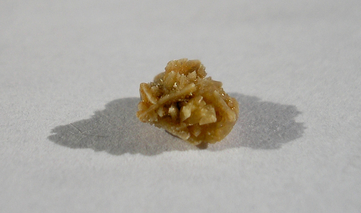 A kidney stone. Yet unidentified type. Author supposed calcium oxalate.